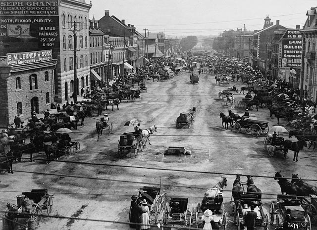 York Street in the Byward Market, Ottawa, Canada ca. 1911.